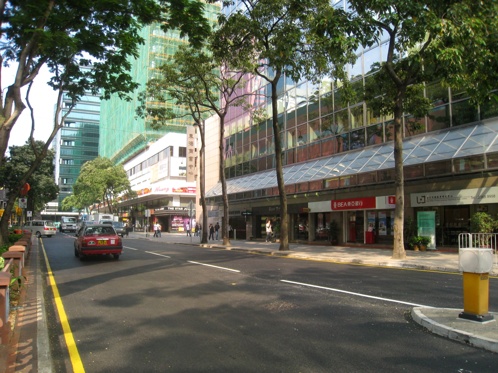 Granville Road Tsim Sha Tsui East Section 加連威老道近新東海商業中心